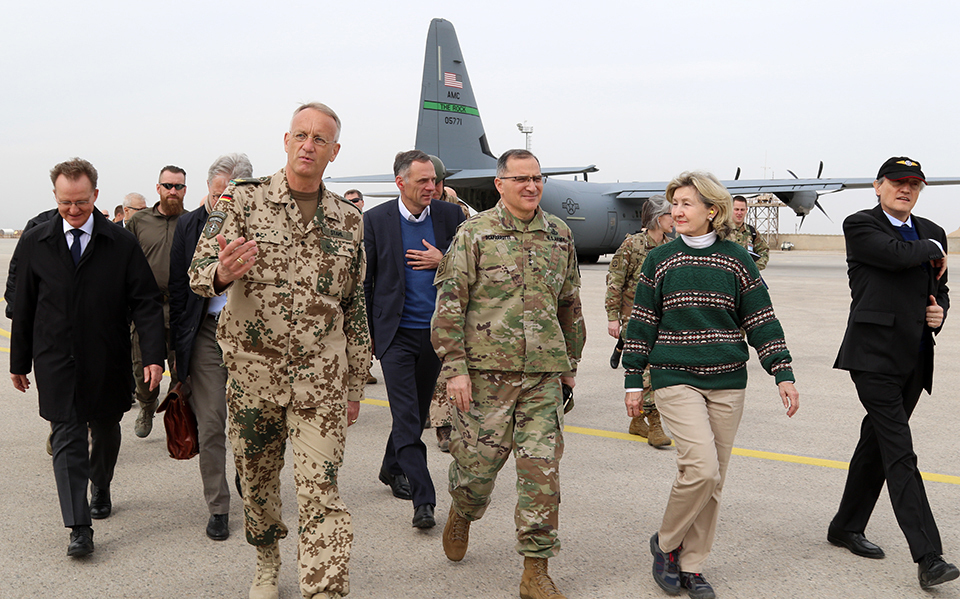 U.S. Army Gen. Curtis M. Scaparrotti, Supreme Allied Commander Europe (SACEUR) and U.S. Ambassador to NATO Kay Bailey Hutchison, talk with German Brig. Gen. Wolf-Jürgen Stahl, commander, Train, Advise, Assist Command - North on Feb. 23, 2018.